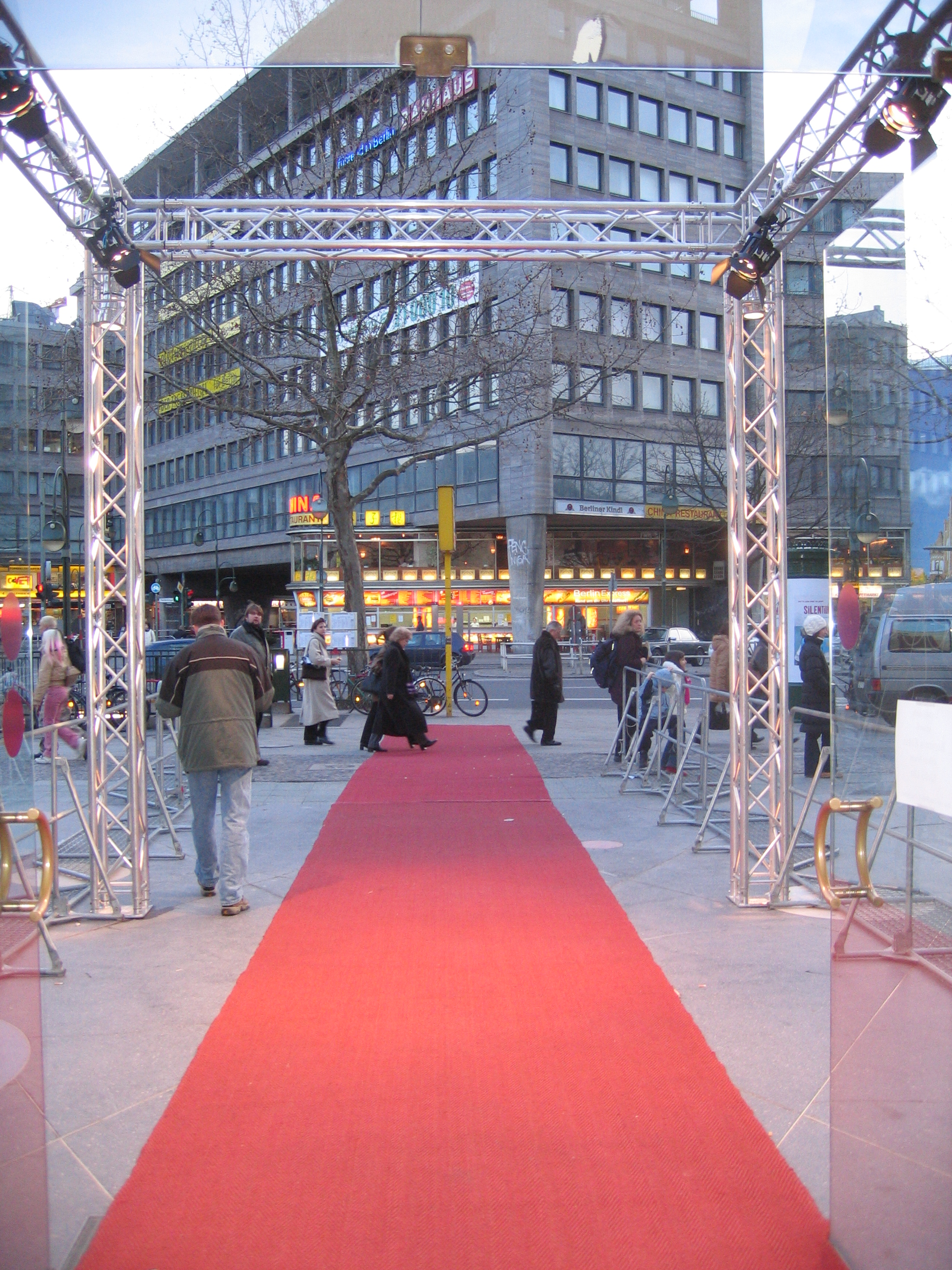 Berlin International Film Festival (Berlinale) 2005, Germany.